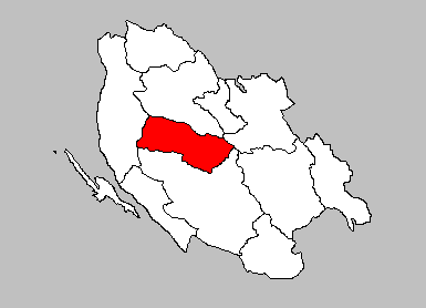 Location of municipality inside of Lika-Senj County